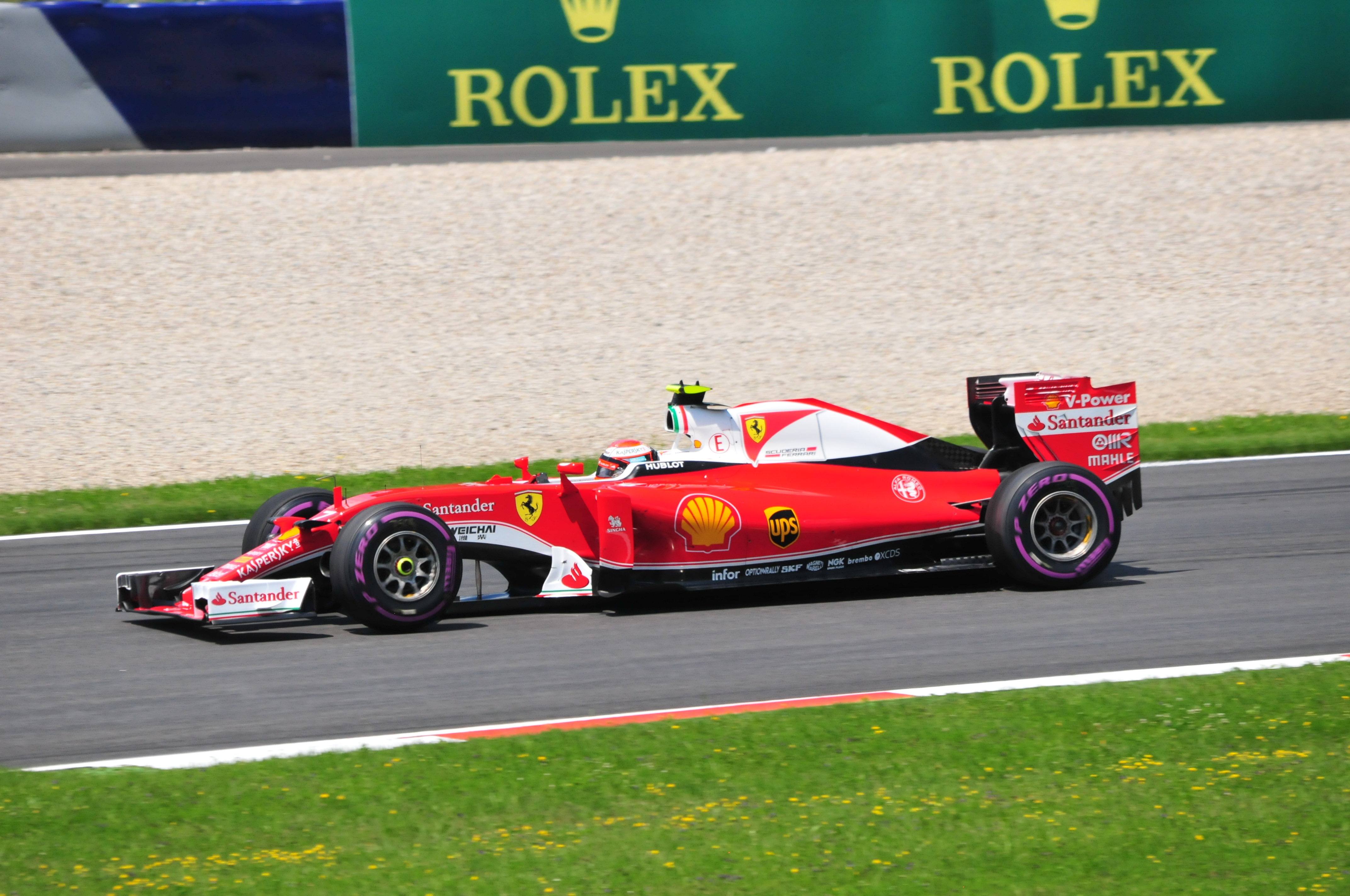 Kimi Räikkönen at the 2016 Austrian Grand Prix